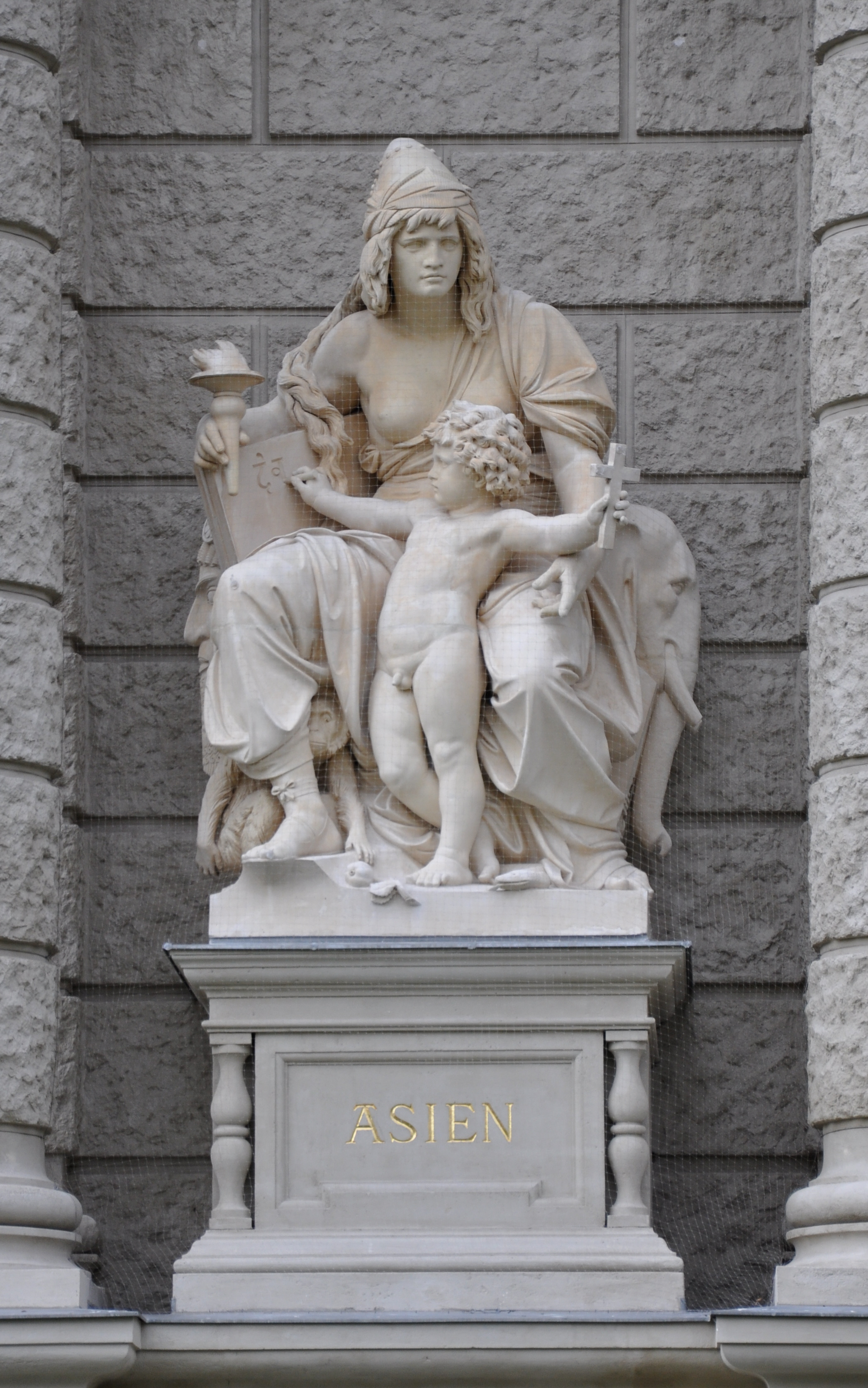 Austria, Vienna, Naturhistorisches Museum